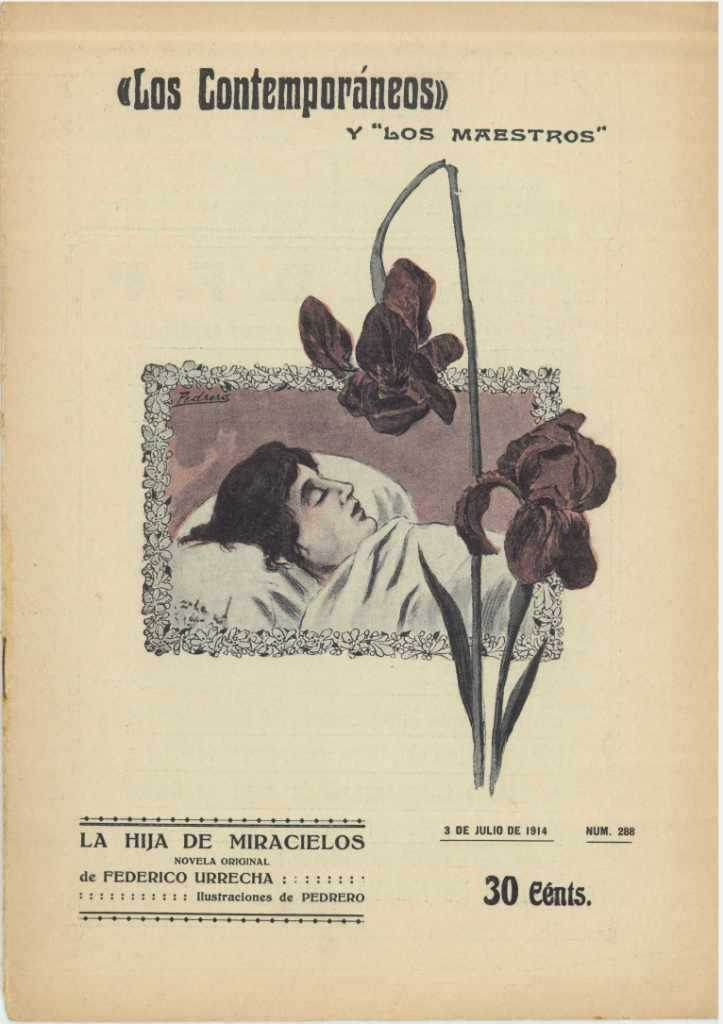 Los Contemporáneos, La Hija de Miracielos, July 1914, nº 288, cover by Mariano Pedrero